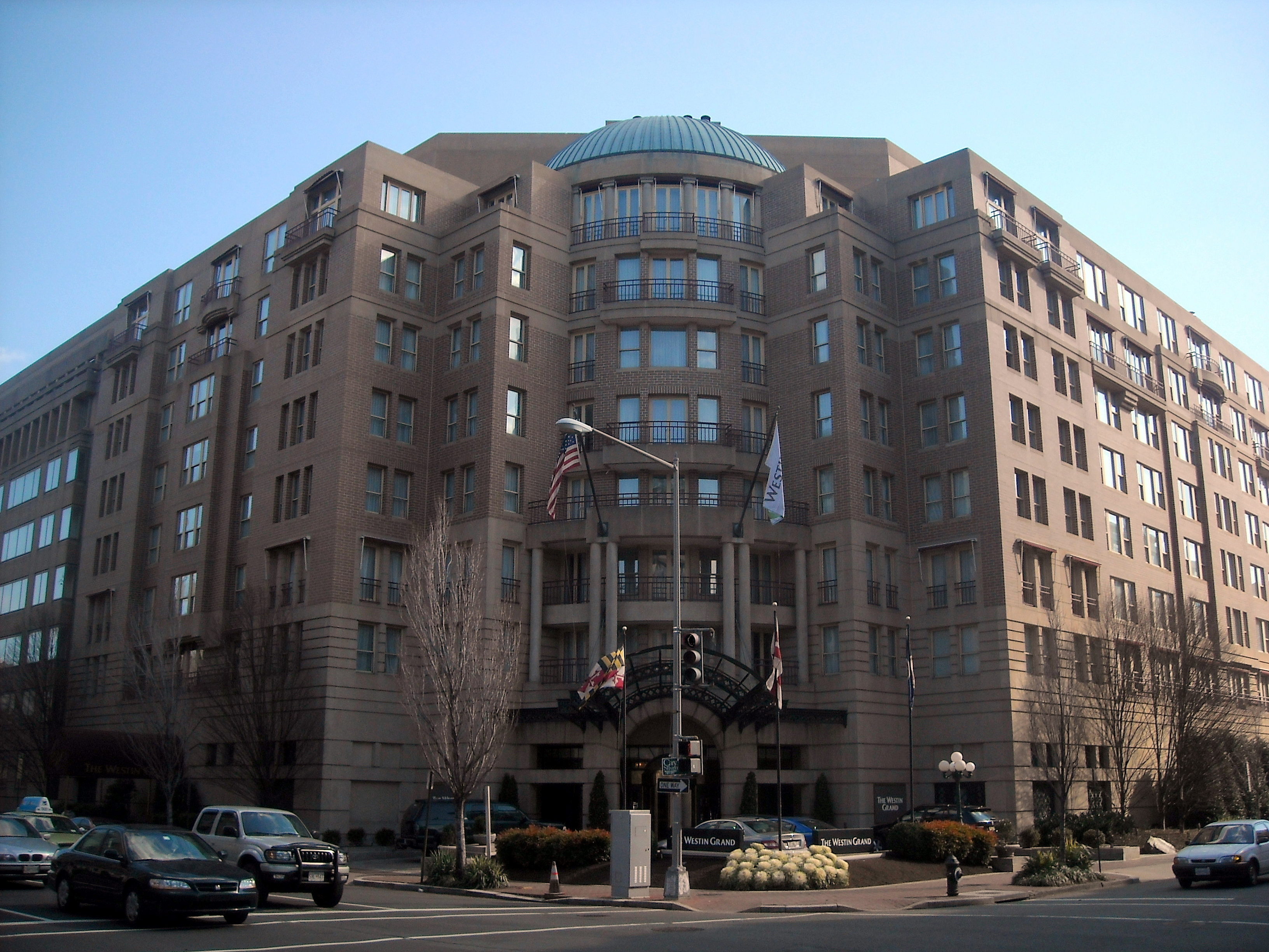 The Westin Grand located at 2350 M Street, NW in the West End neighborhood of Washington, D.C. The building, designed by architect Vlastimil Koubek in collaboration with Structural Engineer Emanuel E. Necula, PE/PC, and constructed in 1984, has a 2009 tax value of $74,974,130.